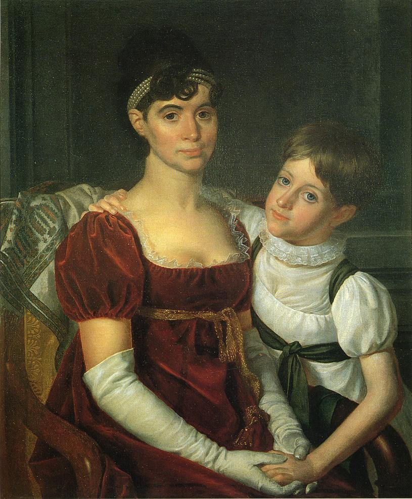 "Alida Livingston Armstrong and Daughter," by the American artist Rembrandt Peale depicts the wife and daughter of American diplomat John Armstrong Jr., son of Revolutionary War patriot General John Armstrong Sr.